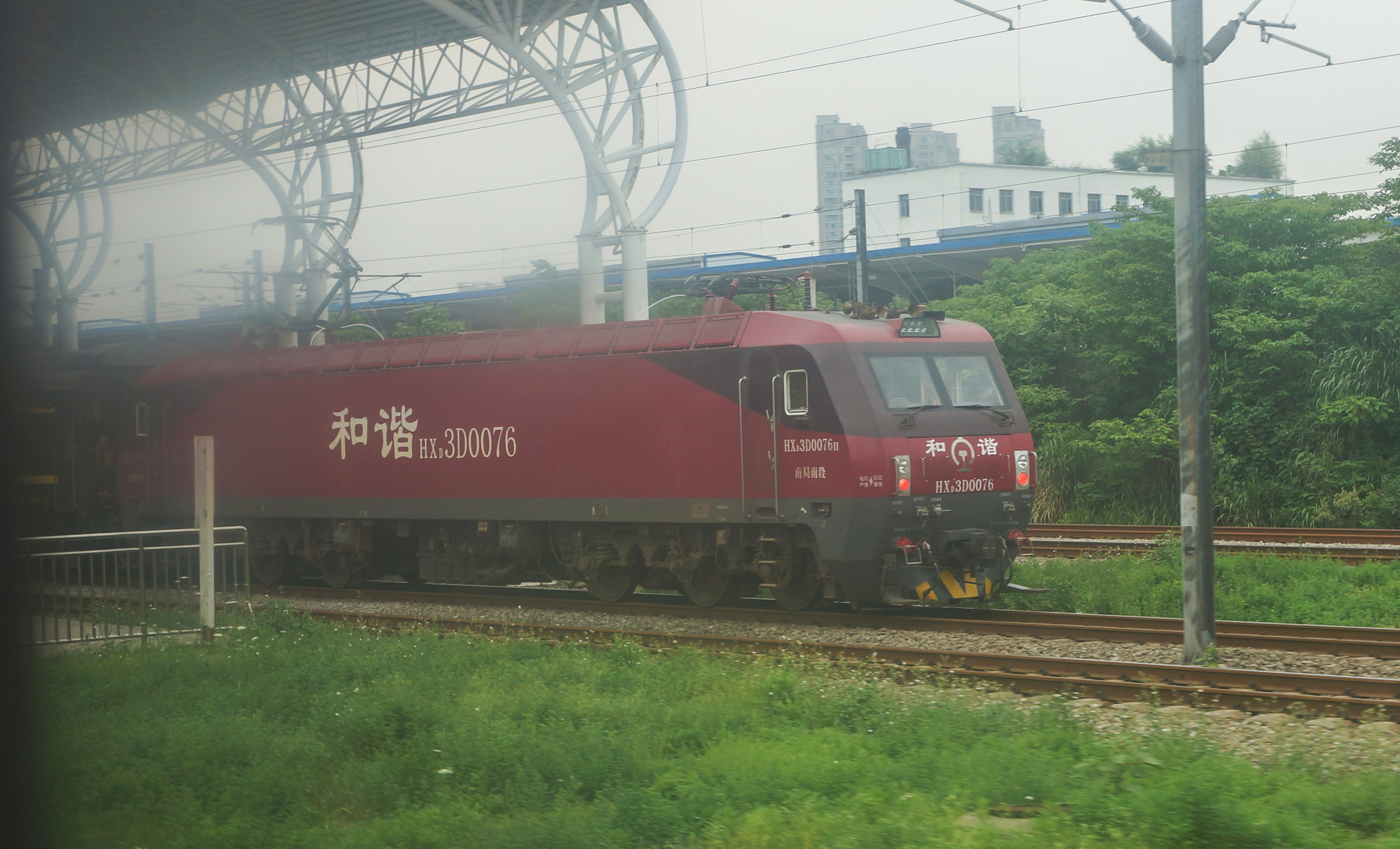 201705 HXD3D-0076 hauls Z103 at Jiujiang Station. Remember have been seen 0076 at Xiamen Locomotive Turnaround Depot 2 years ago.